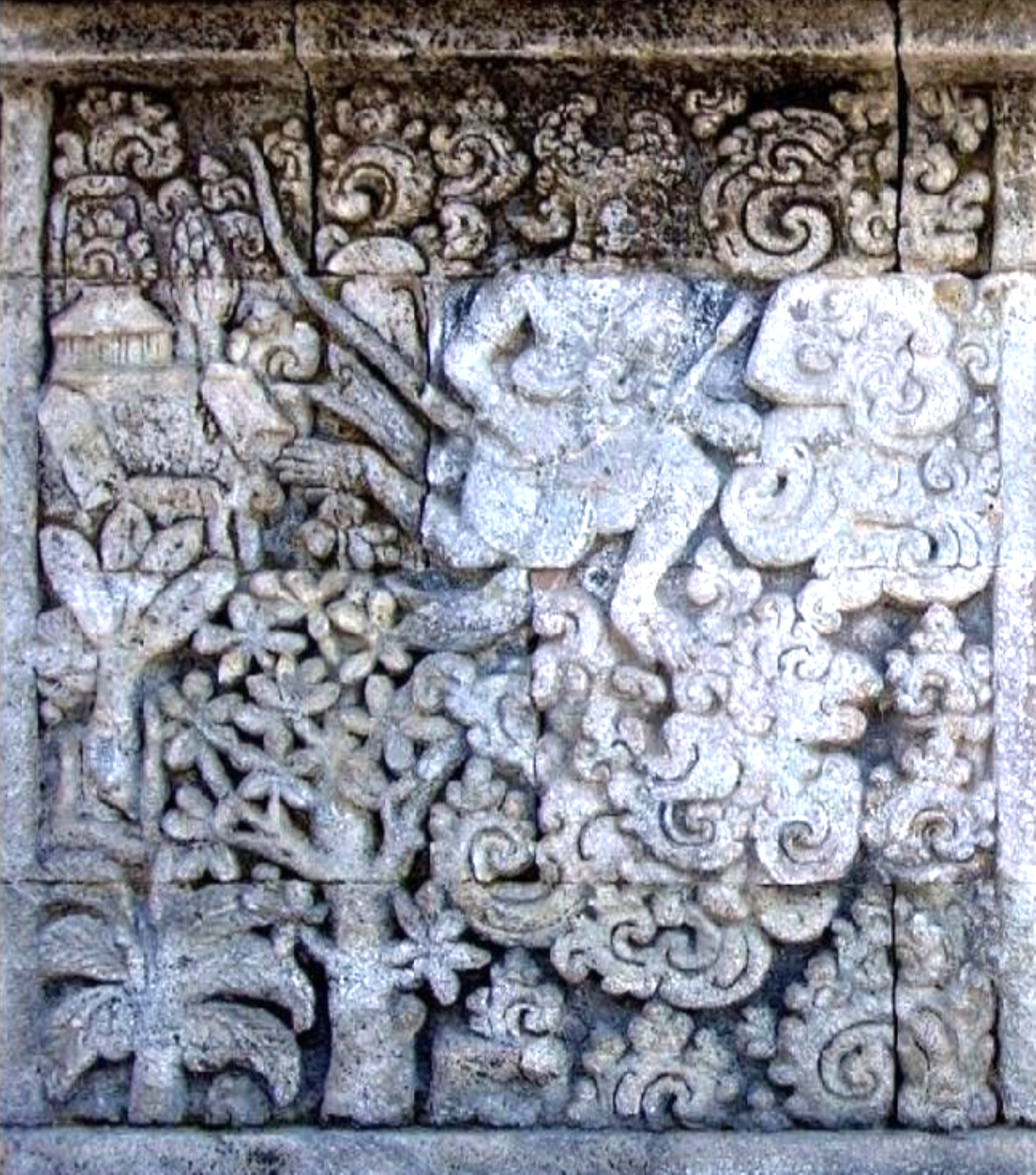 A relief from Panataran temple, East Java, a plumeria tree with its flowers at lower-left. The figure maybe Hanuman, fighting above Udyanawana garden in Alengka (Ramayana).